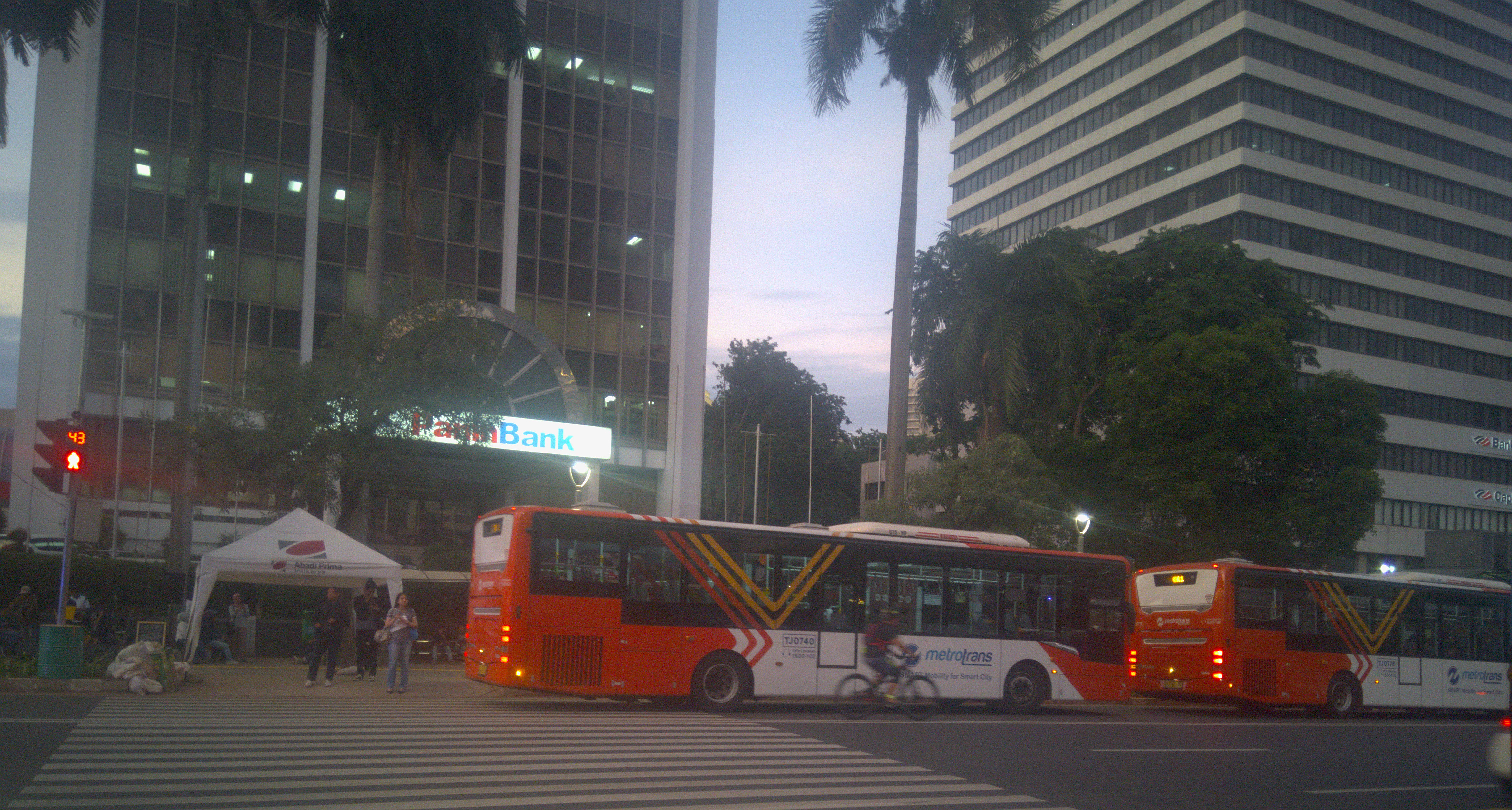 Two MetroTrans buses in the front of Panin Bank Building, Senayan, Jakarta, Indonesia